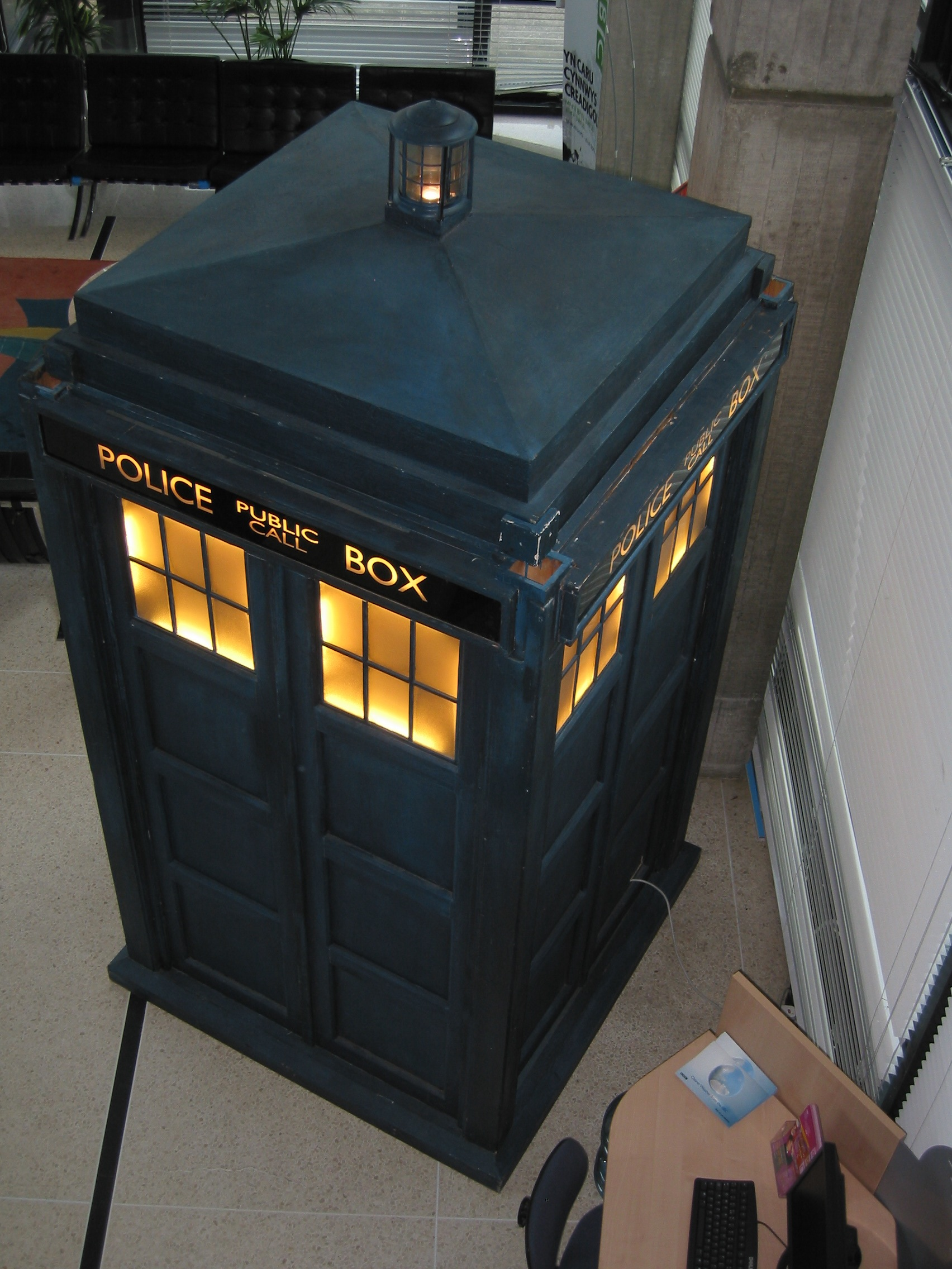 A picture of the TARDIS as taken at BBC Wales reception by Andrew Wong in 2005.